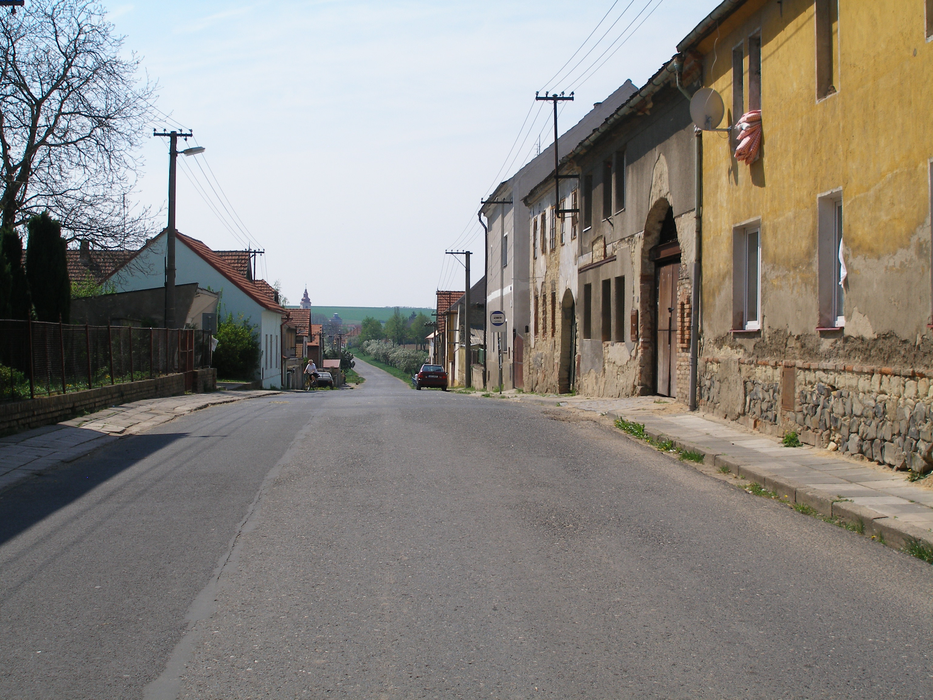 Street in the Libkovice pod Řípem.